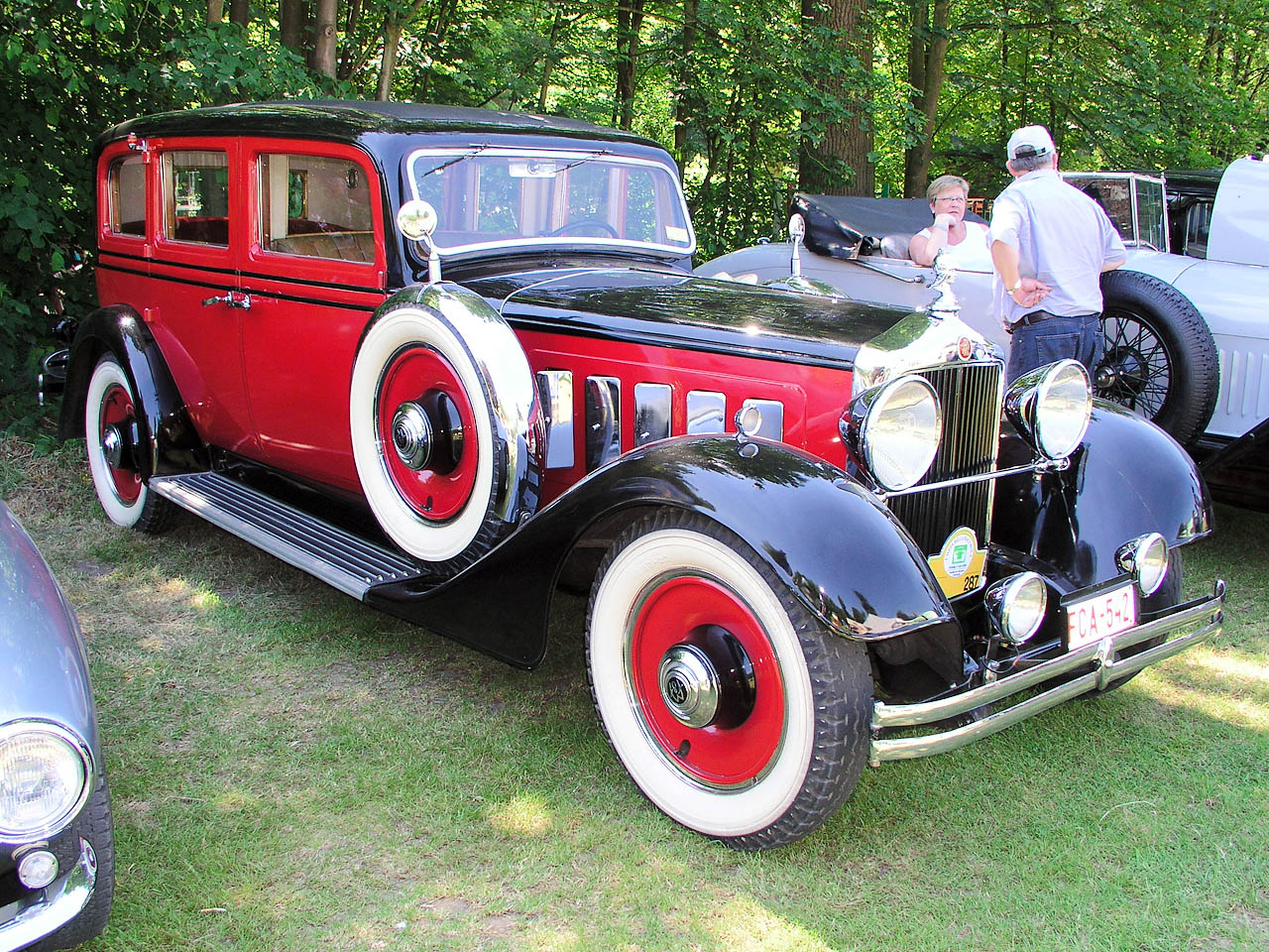 22 HP model powered by a 3960 cc 8-cylinder engine with sleeve-valves, made in Belgium by Minerva Motors SA; front side view